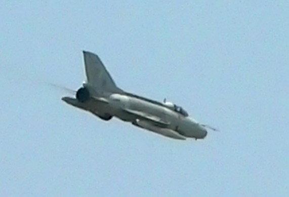 A Chengdu F-7P interceptor aircraft of the Pakistan Air Force flying over Lahore, Pakistan.